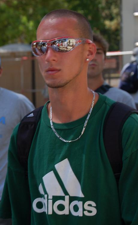 Jeremy Wariner